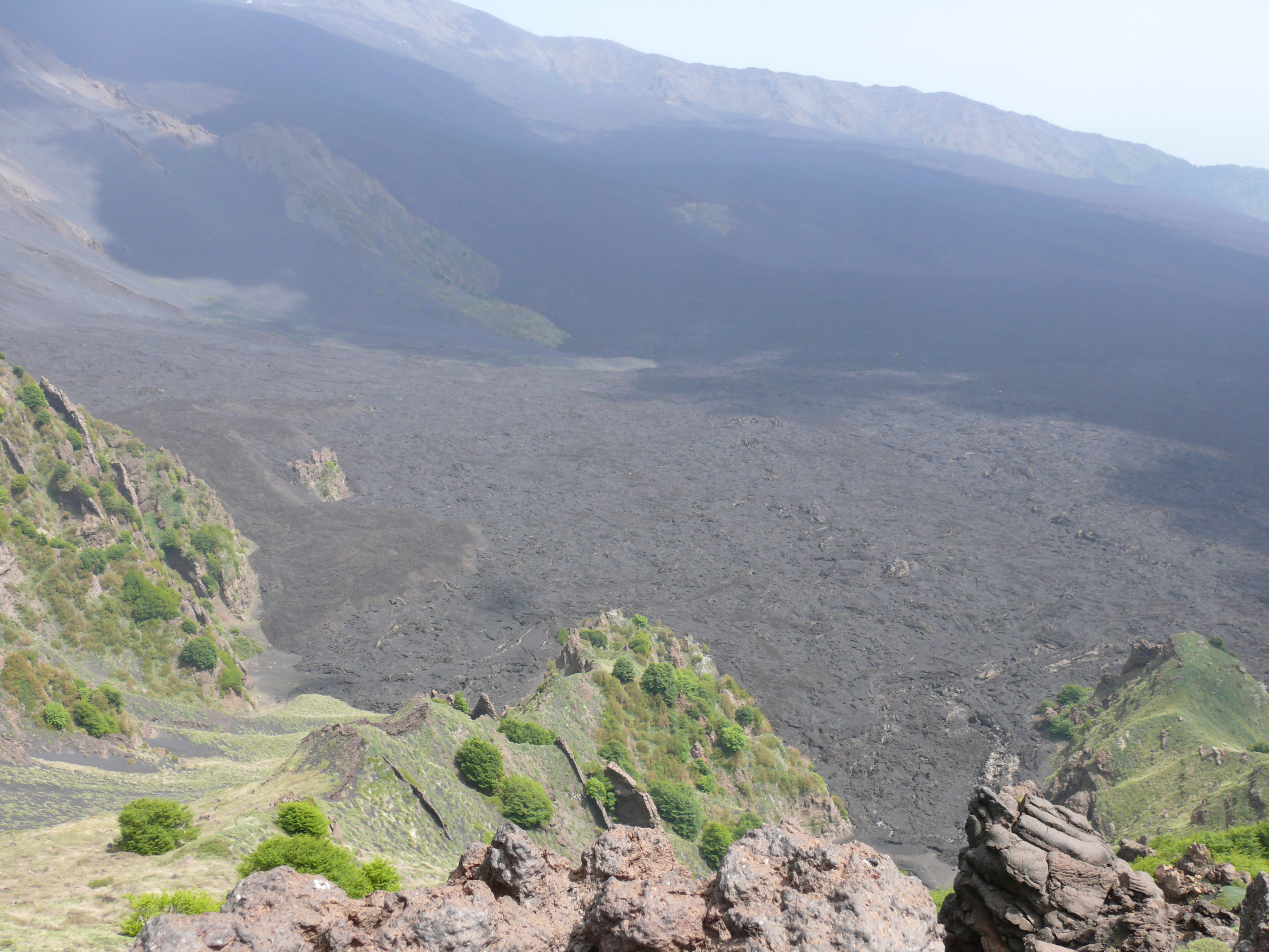 Valle del Bove on Mount Etna in Sicily